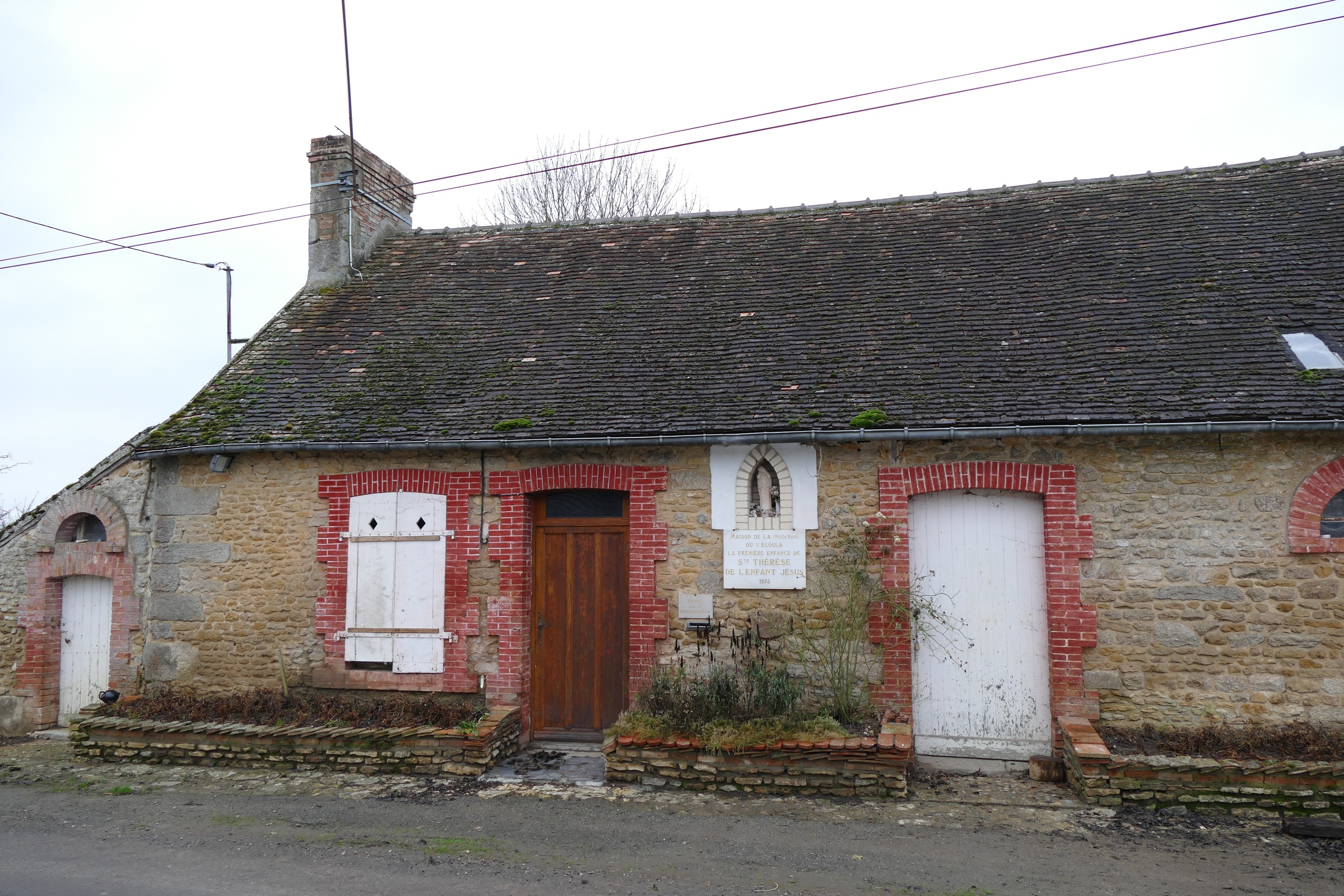 Childhood home of Saint-Teresa in Semallé (Orne, Normandie, France).